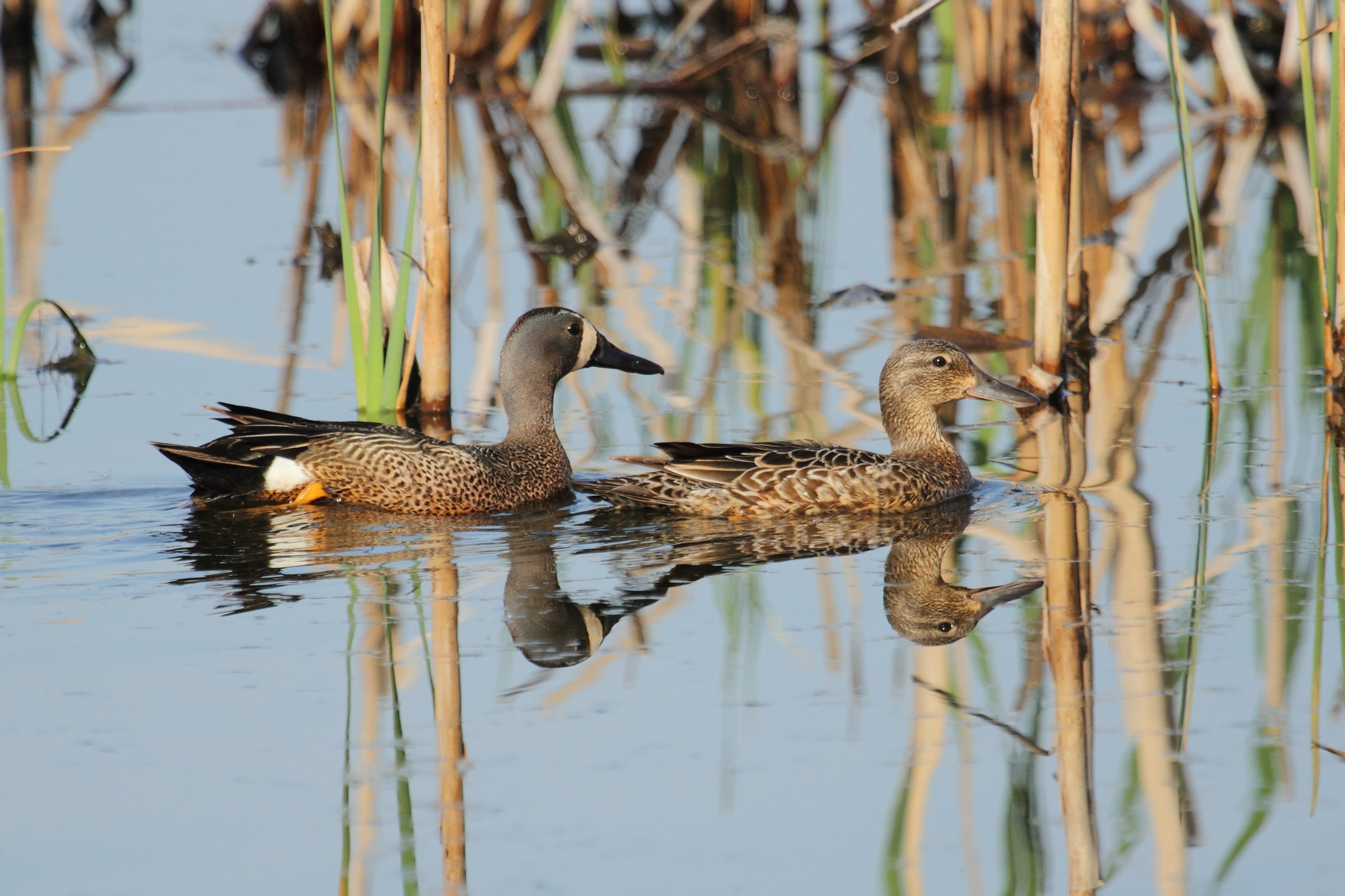 Blue-winged Teal, male and female, Léon-Provancher marsh, Québec, Canada.